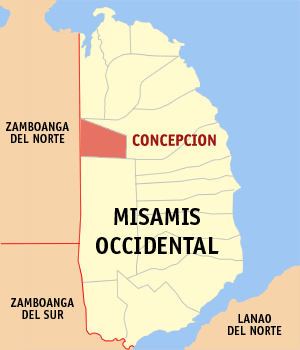 Map of the Misamis Occidental showing the location of Concepcion